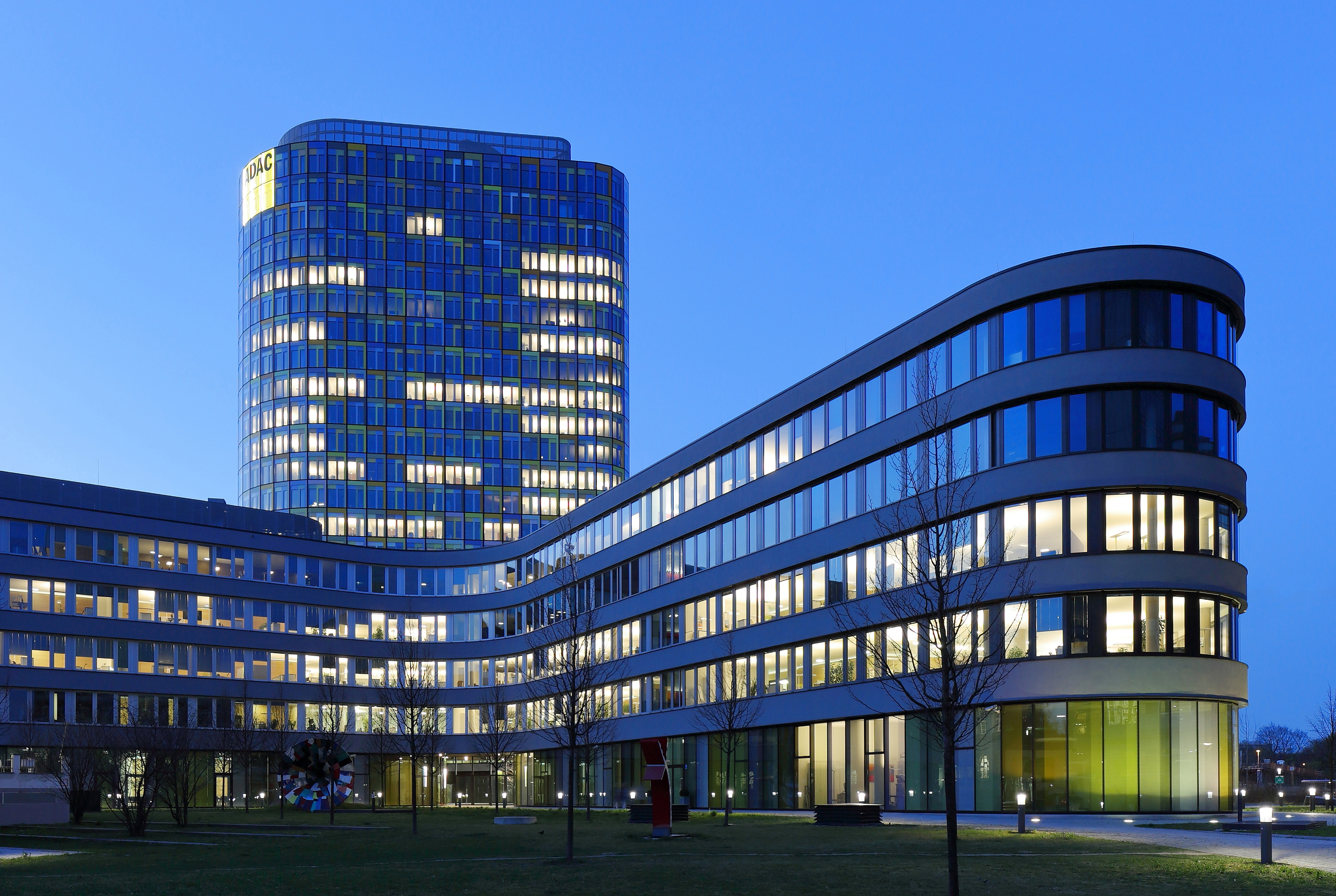 The main office complex of the ADAC in Munich was designed by Sauerbruch Hutton and opened in 2012.